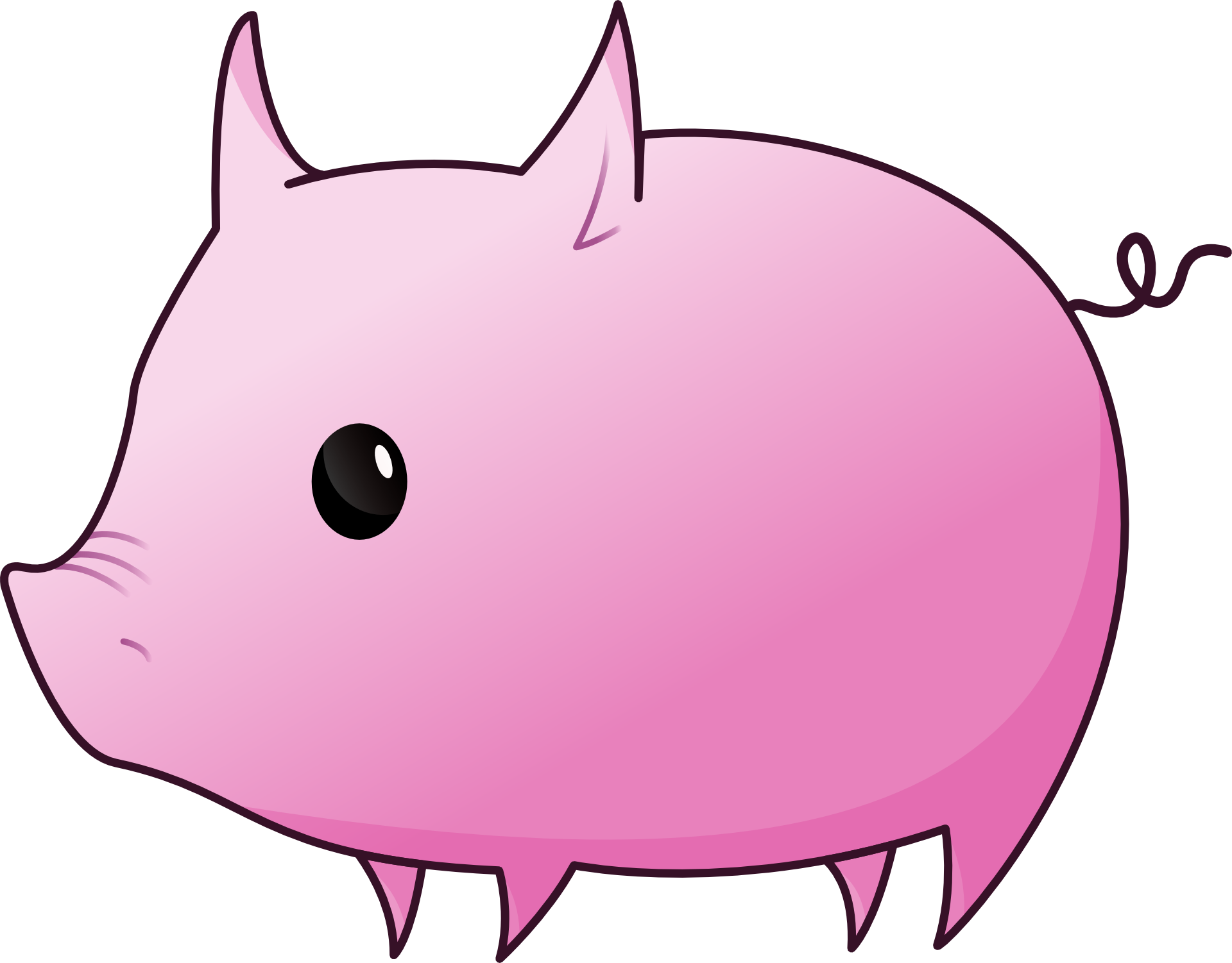 Pink pig